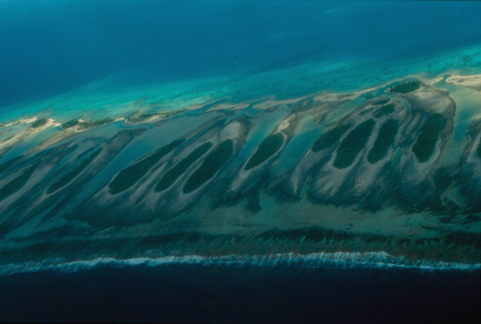 Southeastern part of the Tikehau Atoll (Tuamotu Archipelago, French Polynesia)